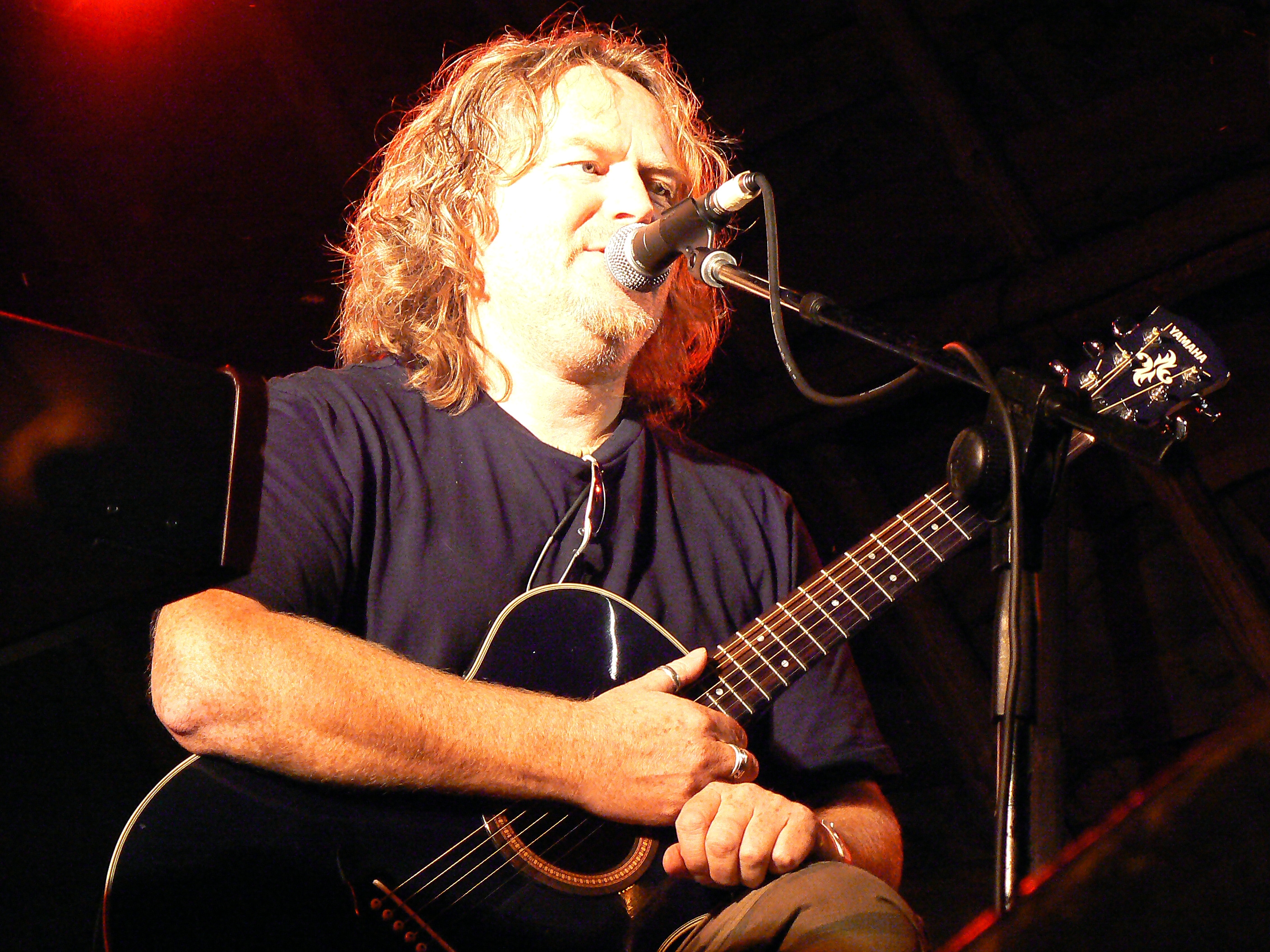 Nick Barrett (Pendragon) performing an accoustic program with Clive Nolan at "Baltic Prog Fest 2008" in Kernavė, Lithuania.